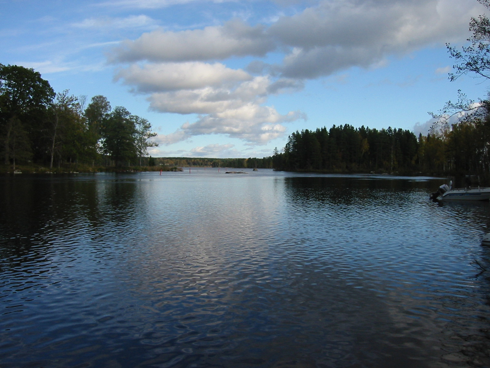 Lake Virsbo as seen from a place close to the canal lock at Virsbo